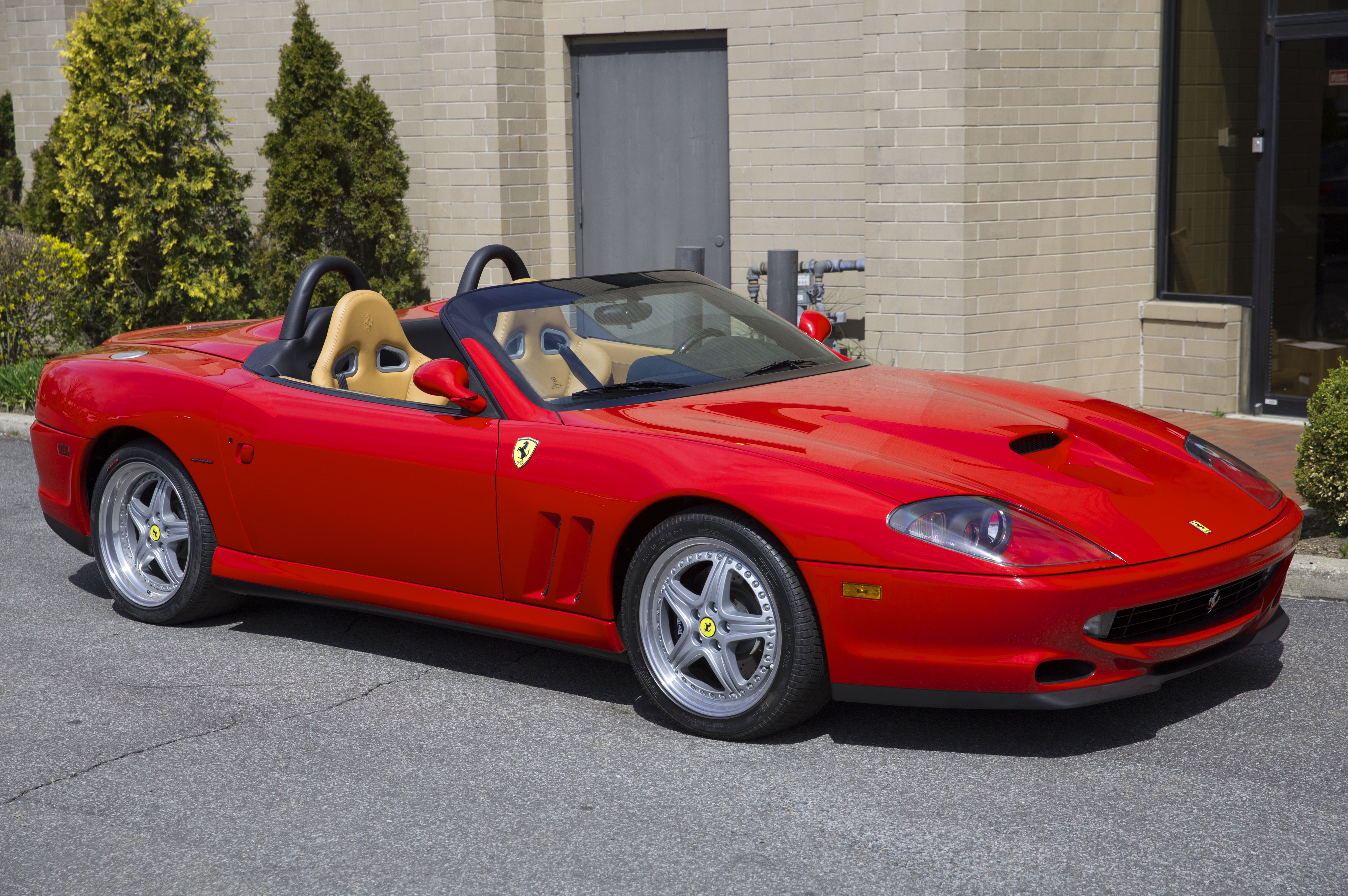 File:2001 Ferrari 550 Barchetta no 135, front right side.jpg, edited to minimize the magenta posterization on the side of the car.